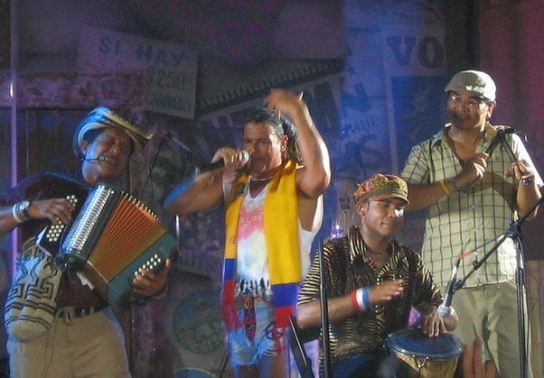 Colombian singer Carlos Vives in Concert